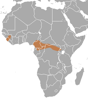 Dent's Shrew (Crocidura denti) range